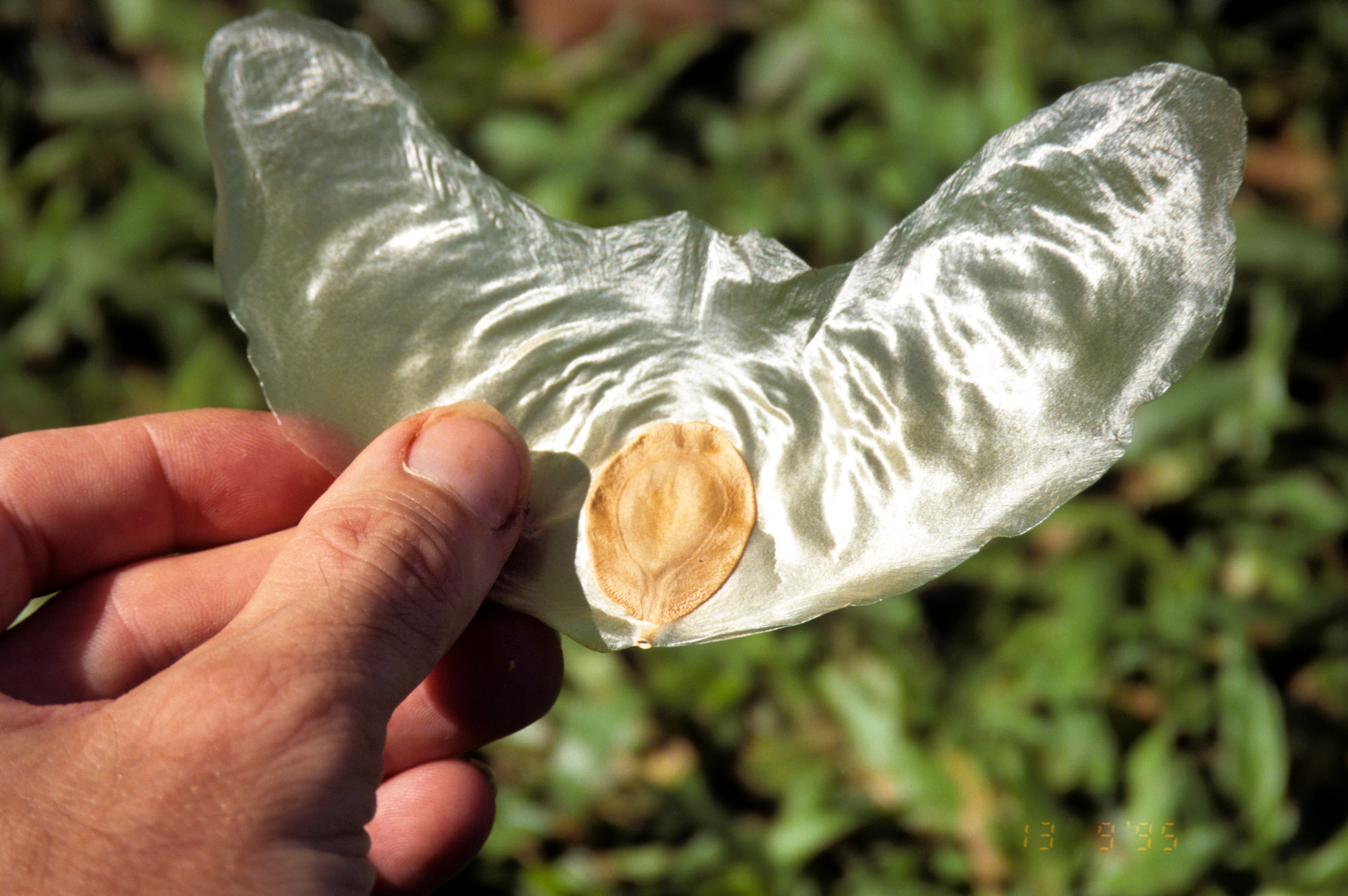 Kebun Raya, Bogor, Indonesia. A bit of flowery prose from an essay that I wrote in 2001 on wind-dispersed seeds & fruits: "Every now and then, field botanists are treated to transcendental moments when the light is golden, the air is fresh, interesting plants are at hand, and the hardships of field work just melt away. During those times, scientific insights arrive with astonishing clarity and grace. One such moment for me came on a sunny afternoon in the Kebun Raya Botanic Garden, in Bogor, Indonesia, some years ago. On that memorable day, I was transfixed as I watched dozens of winged seeds of Alsomitra macrocarpa (Cucurbitaceae, the squash family) glide to the ground in broad, lazy spirals. The seeds spilled out from a fruit hanging on the liana climbing on one of the enormous old trees in the garden. All the principles of aerodynamics as they relate to seed dispersal were manifest in that one lovely moment. "The gliding seeds of Alsomitra exhibit two kinds of motion: The forward gliding motion, which takes the seed on a helical, downward path, and phugoid oscillations, in which the gliding seed gains lift, stalls, drops briefly until it accelerates enough to generate lift, starting the process over again. Phugoid oscillations are well known to aviation engineers and model airplane fliers, because they can destabilize mechanized flight, but in the seeds of Alsomitra, phugoid oscillations add a graceful rhythm to the descent, and more importantly, slow the descent of the seeds giving them more time aloft. Time aloft is the sine qua non of successful dispersal by wind."